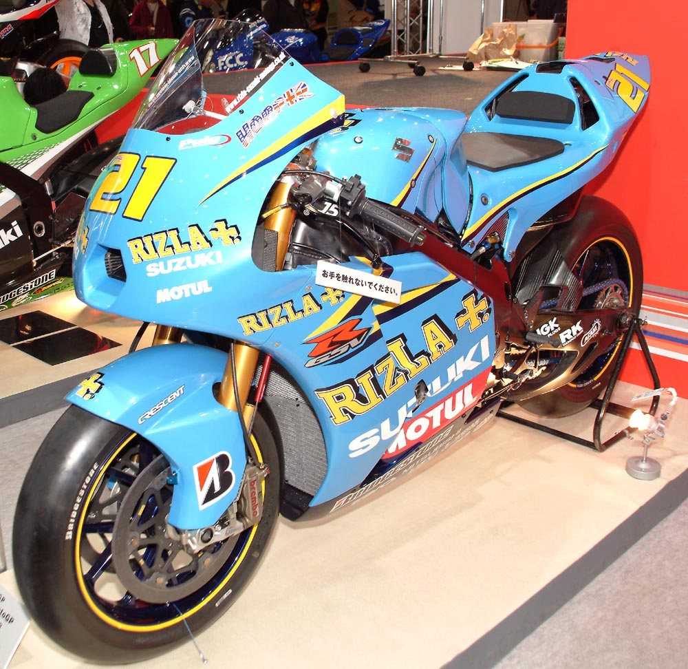 SUZUKI GSV-R 2006 Model (XR-E4)